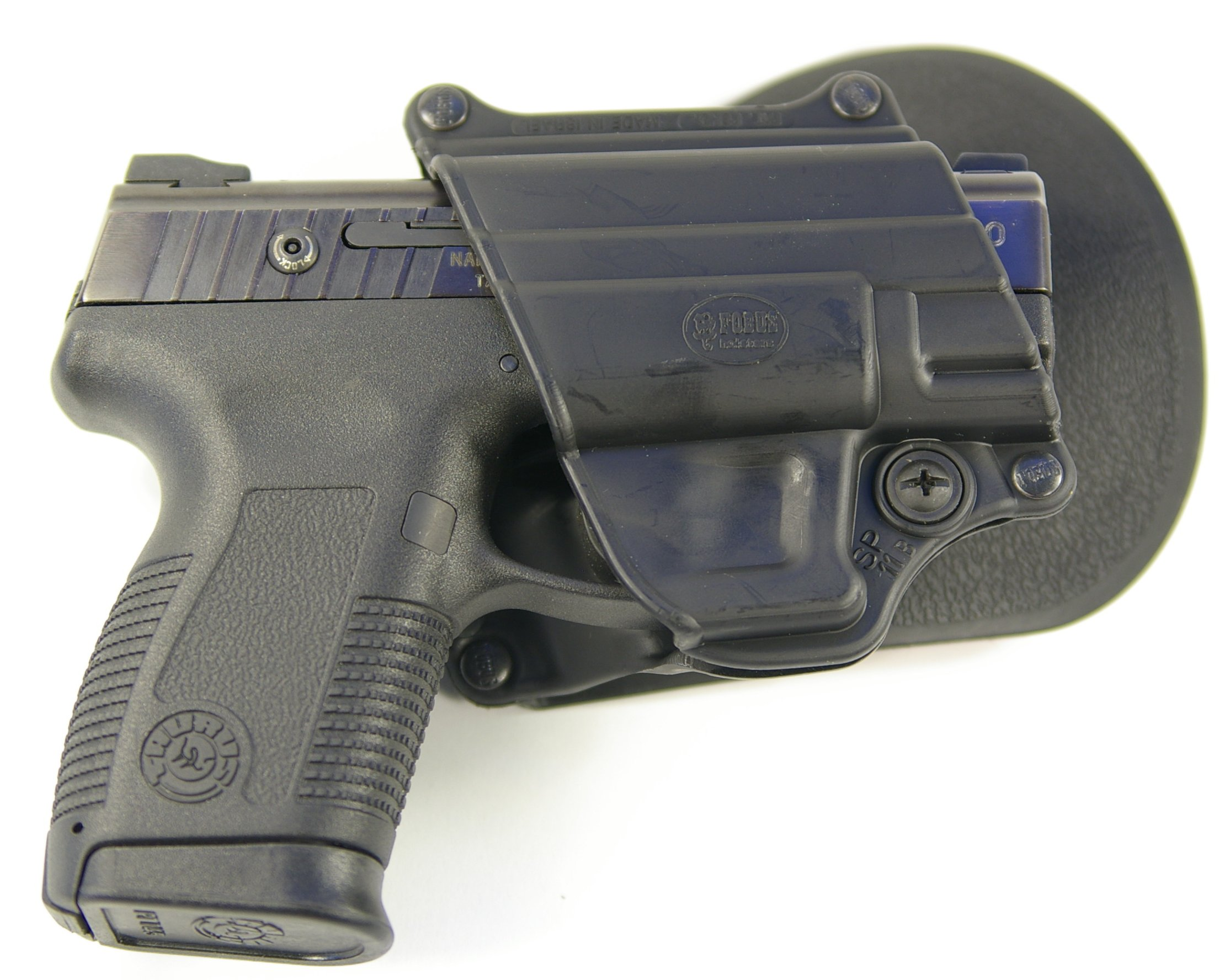 A Taurus PT145B in a Fobus Compact Paddle holster, SP11B.